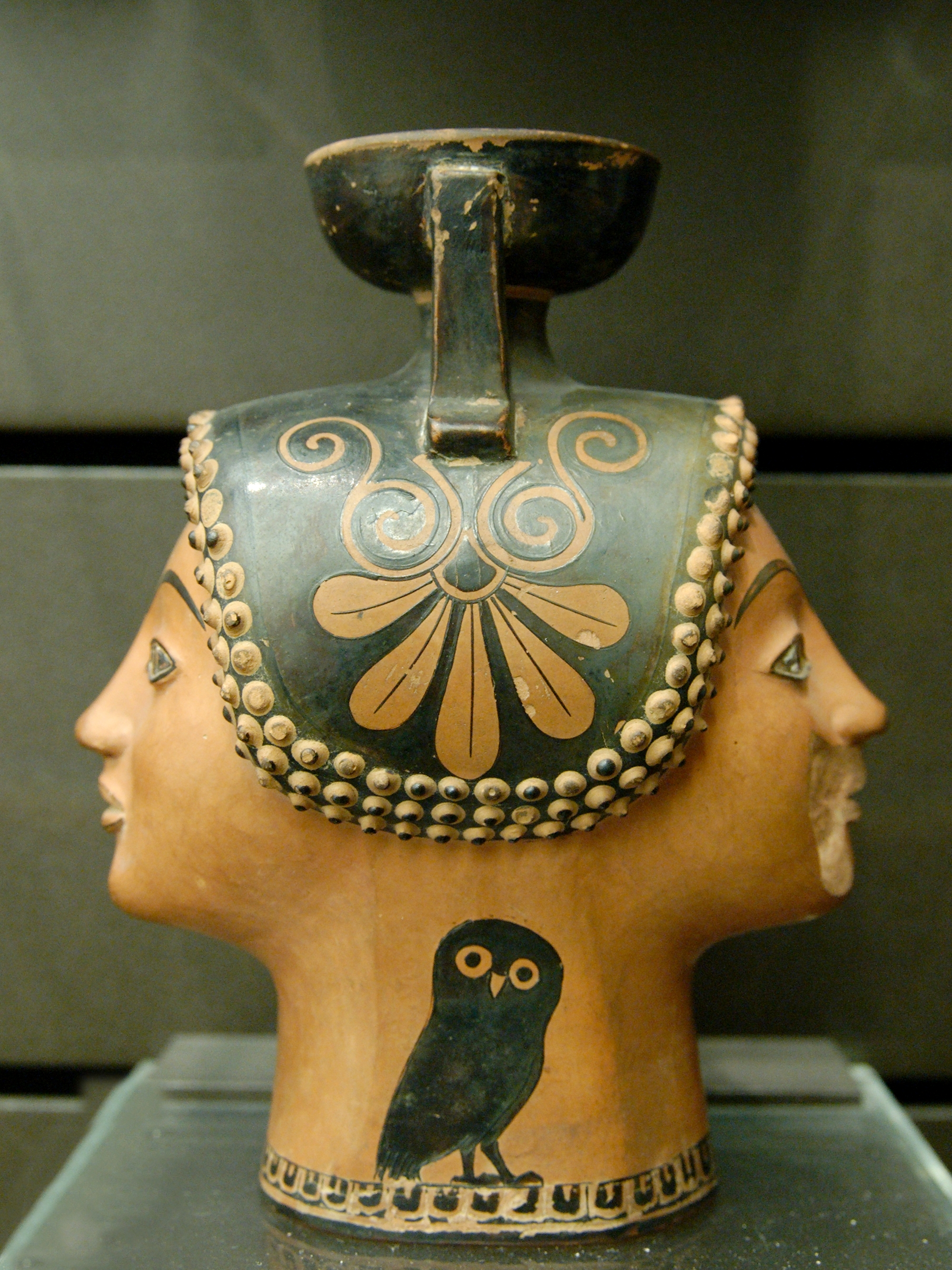 Attic red-figure plastic aryballos with janiform women's heads, ca. 510–500 BC. The vase bears the inscription "Epilykos kalos" (here unseen). From Eretria?